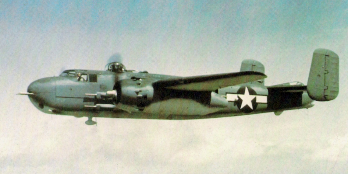 A U.S. Marine Corps North American PBJ-1H Mitchell in flight.